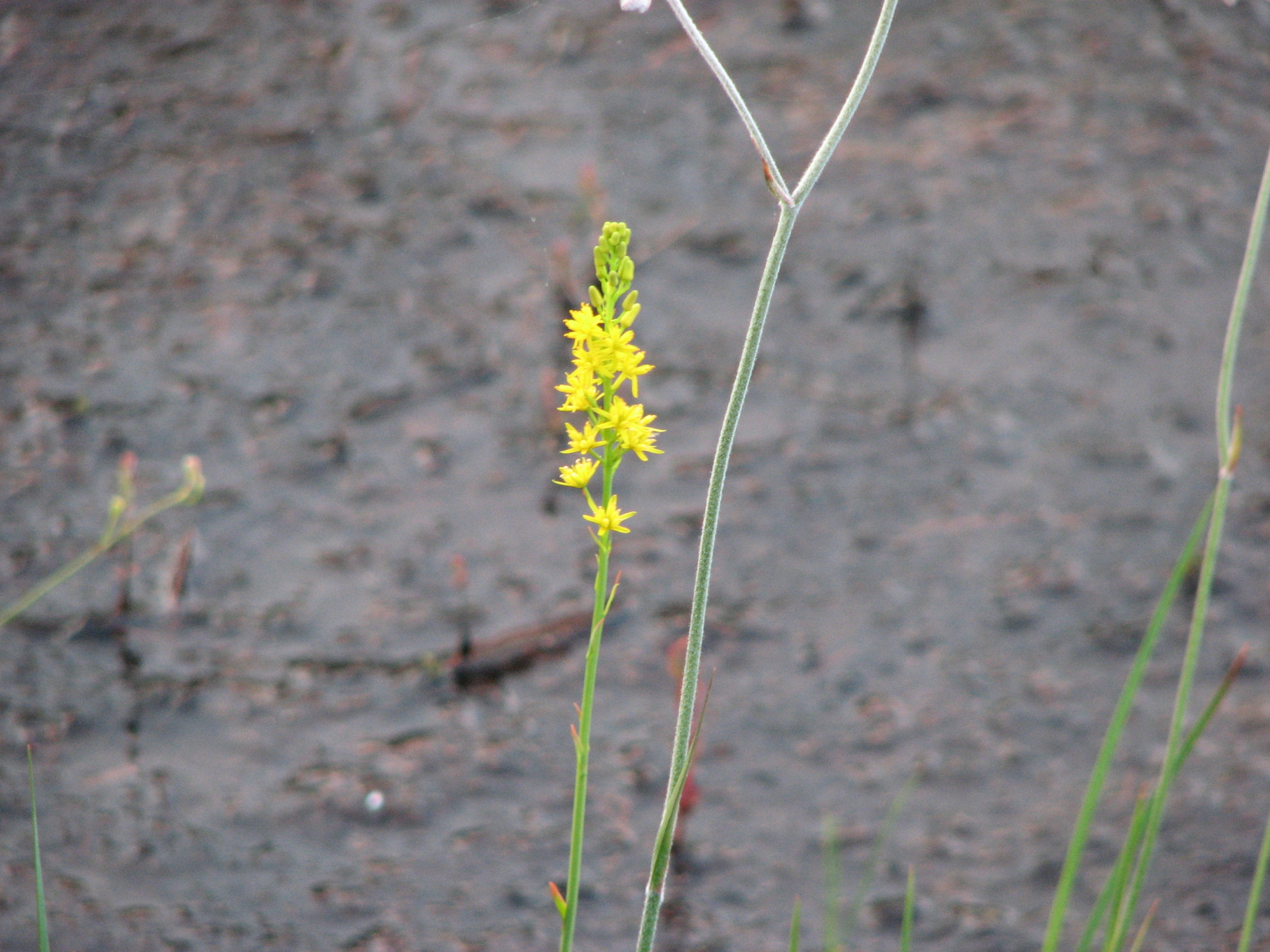 Narthecium americanum in flower. Webb's Mill bog, New Jersey Pine Barrens.